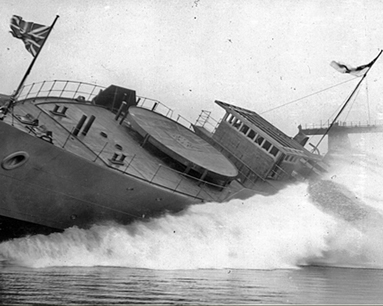 The launch of HMCS Kamsack - 5 May 1941.